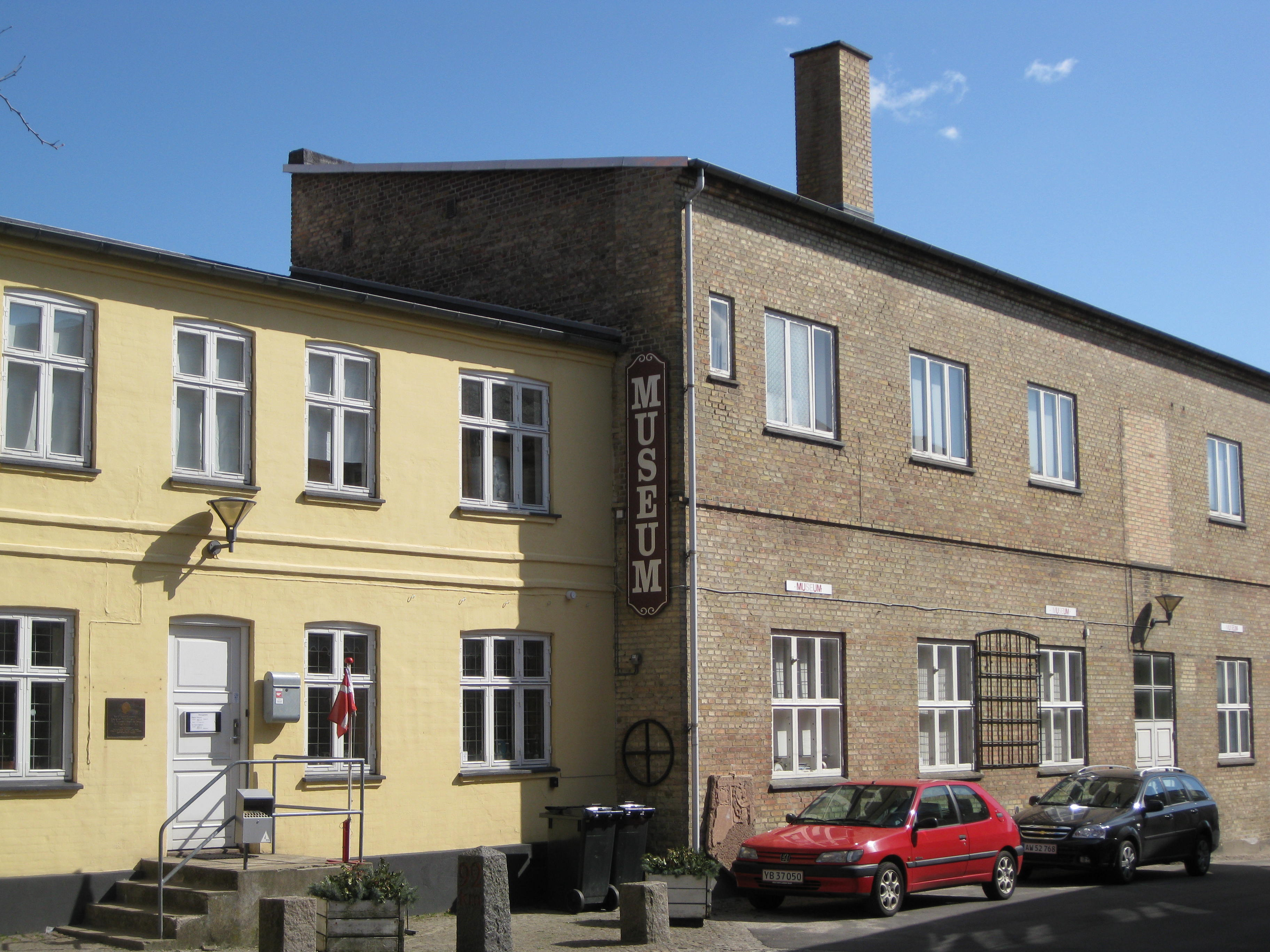 The museum "Slagelse Museum" in the town Slagelse. The town is located in West Zealand, Denmark.